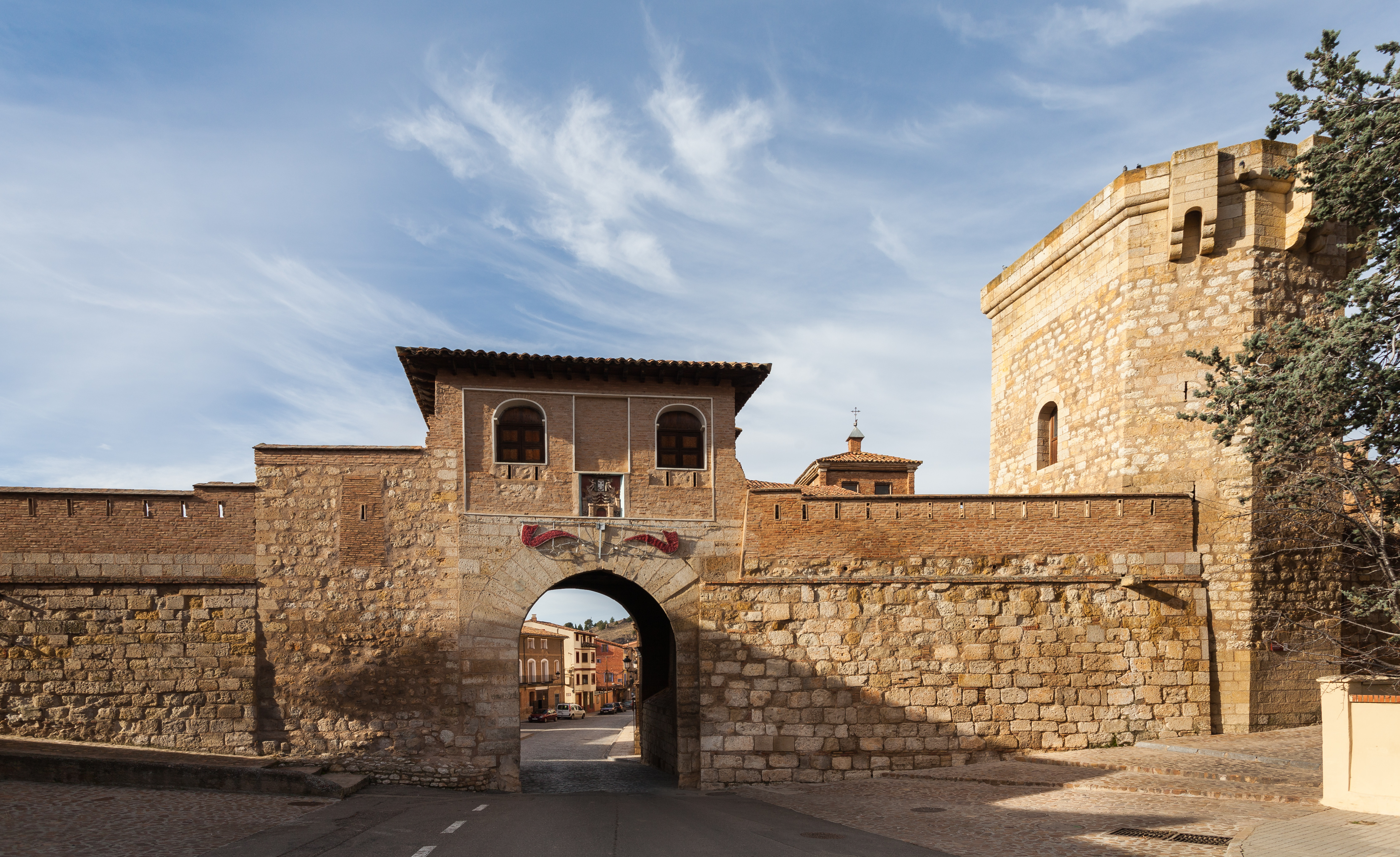 High Gate, Daroca, Zaragoza, Spain